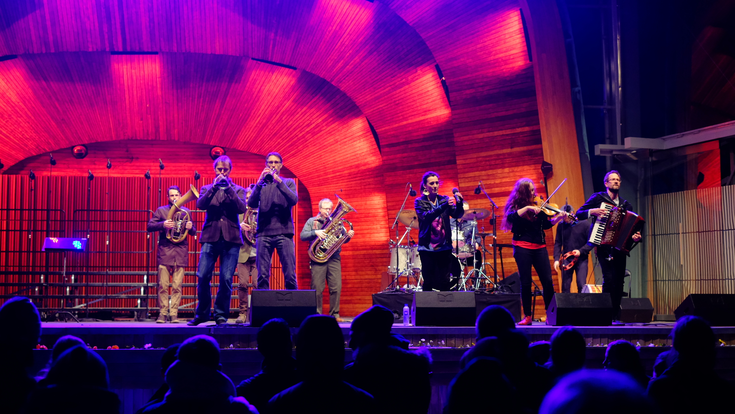 Östblocket på Skansen, Stockholm